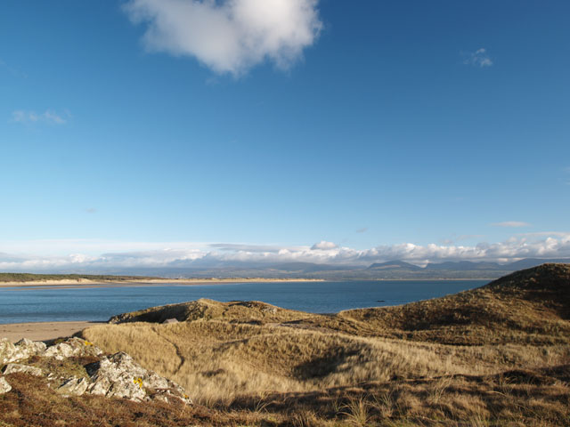 Newborough beach National Nature Reserve from Llanddwyn Island, Anglesey, Wales. with the mountains of Snowdonia in the distance. The reserve is managed by the Countryside Council for Wales.